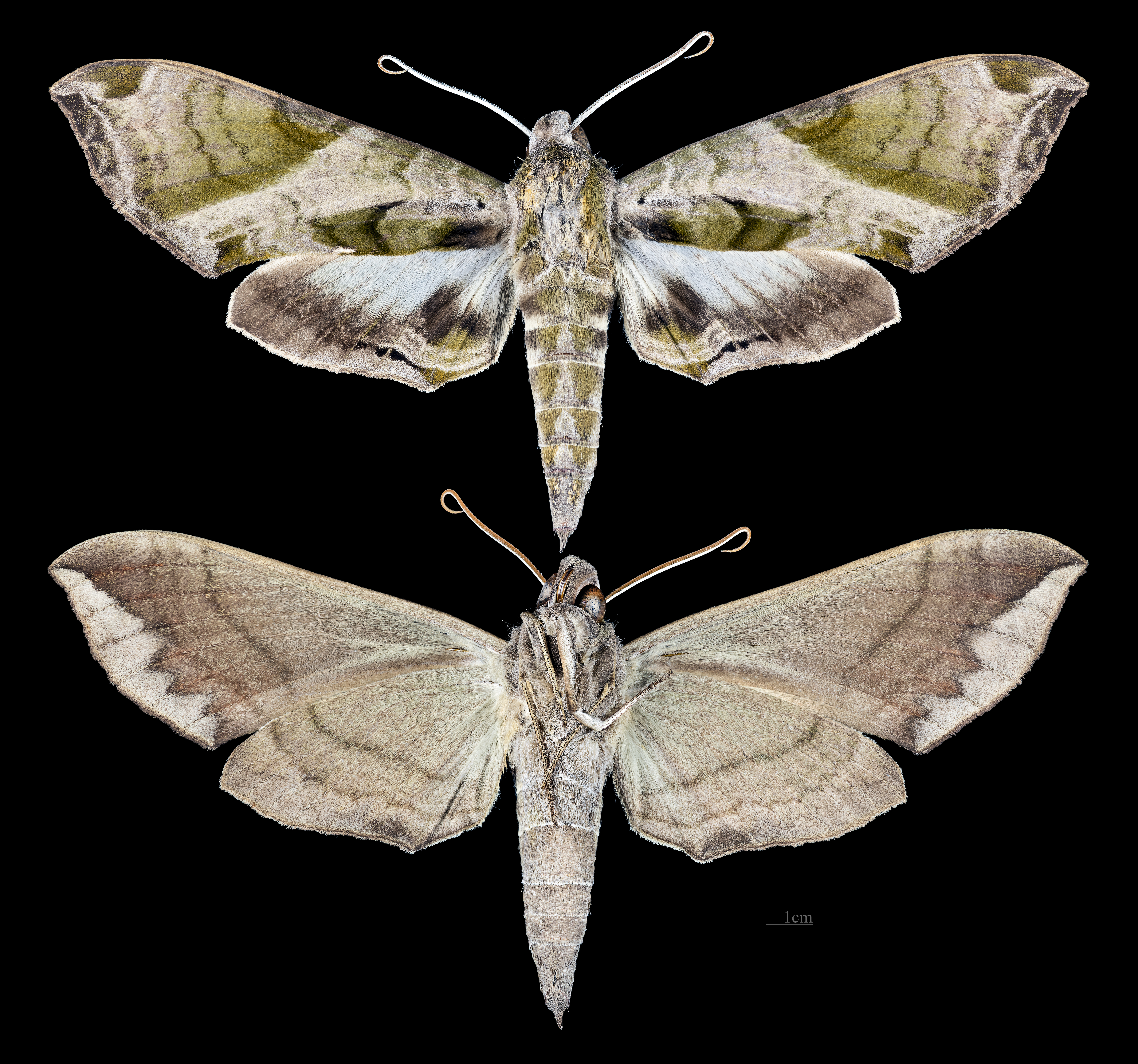 Eumorpha elisa - Two views of same specimen Collection of the Mathematician Laurent Schwartz